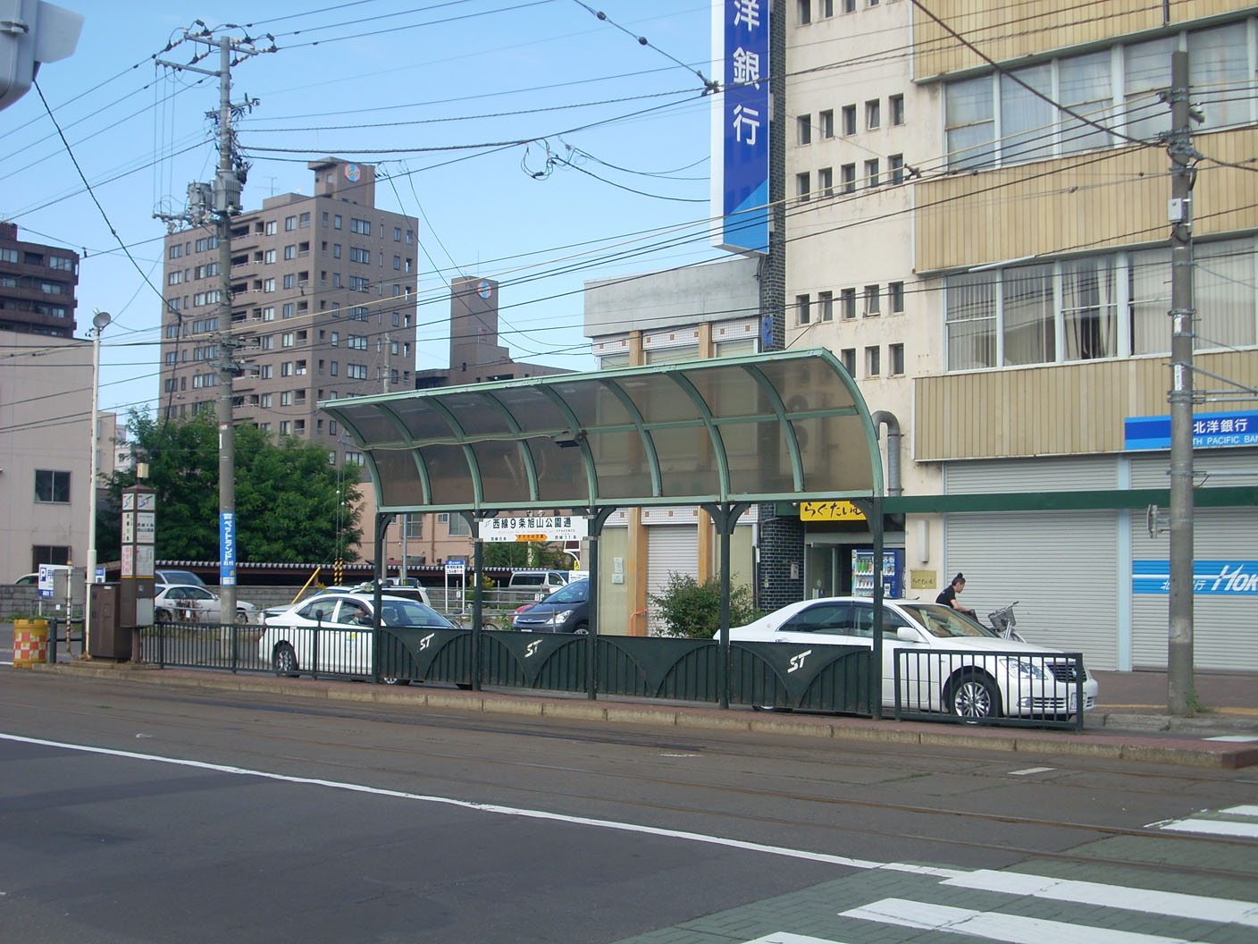 Sapporo street car Nishisen kujo asahiyama koen dori station, Chuo-ku, Sapporo, Hokkaido, Japan